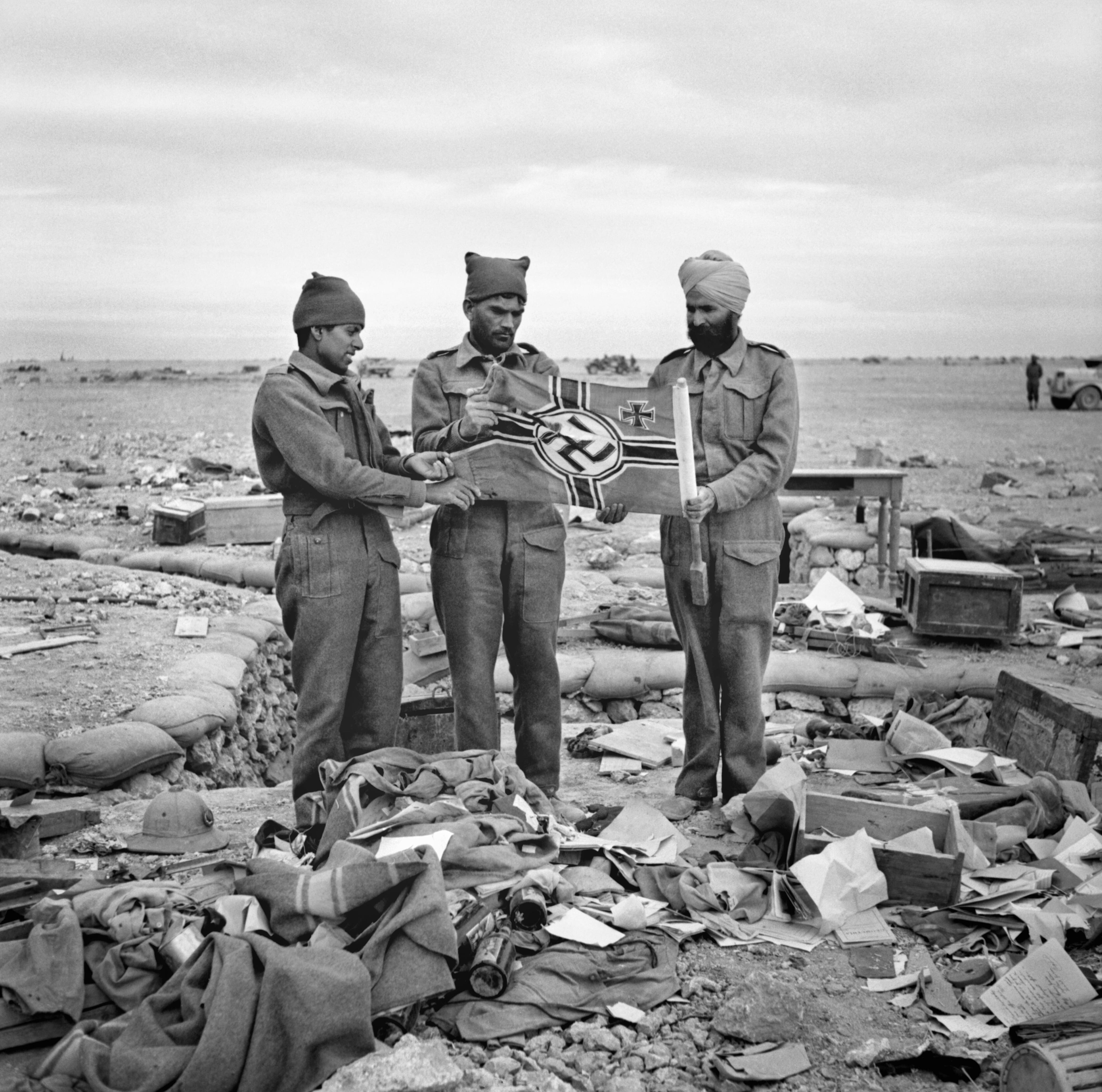 Indian Forces in North Africa during the Second World War Men of the 4th Indian Division with a captured German flag at Sidi Omar, North Africa.